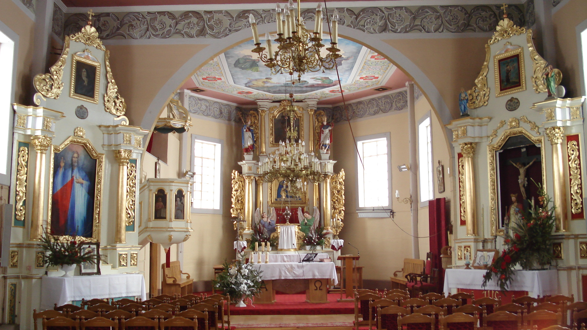 Catolical church of Leźnica Wielka (Poland)